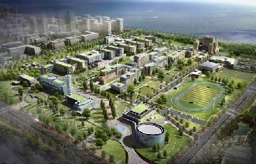 NEW Campus of UI.